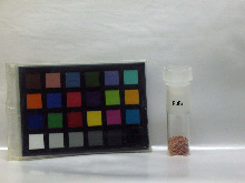 Plutonium tetrafluoride color square